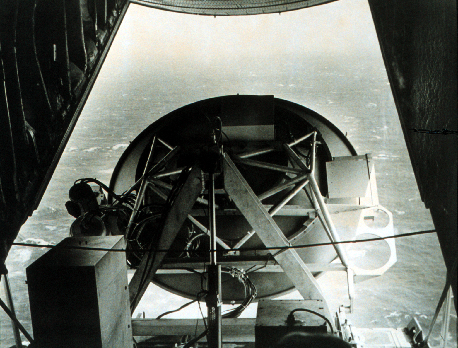 Microwave antenna from the tail of a NOAA Hurricane Hunter plane in 1973's Hurricane Ava.